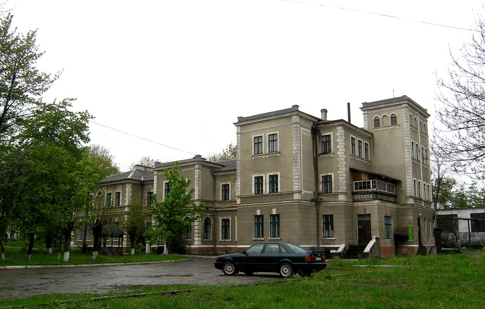 Hliboka in 2008